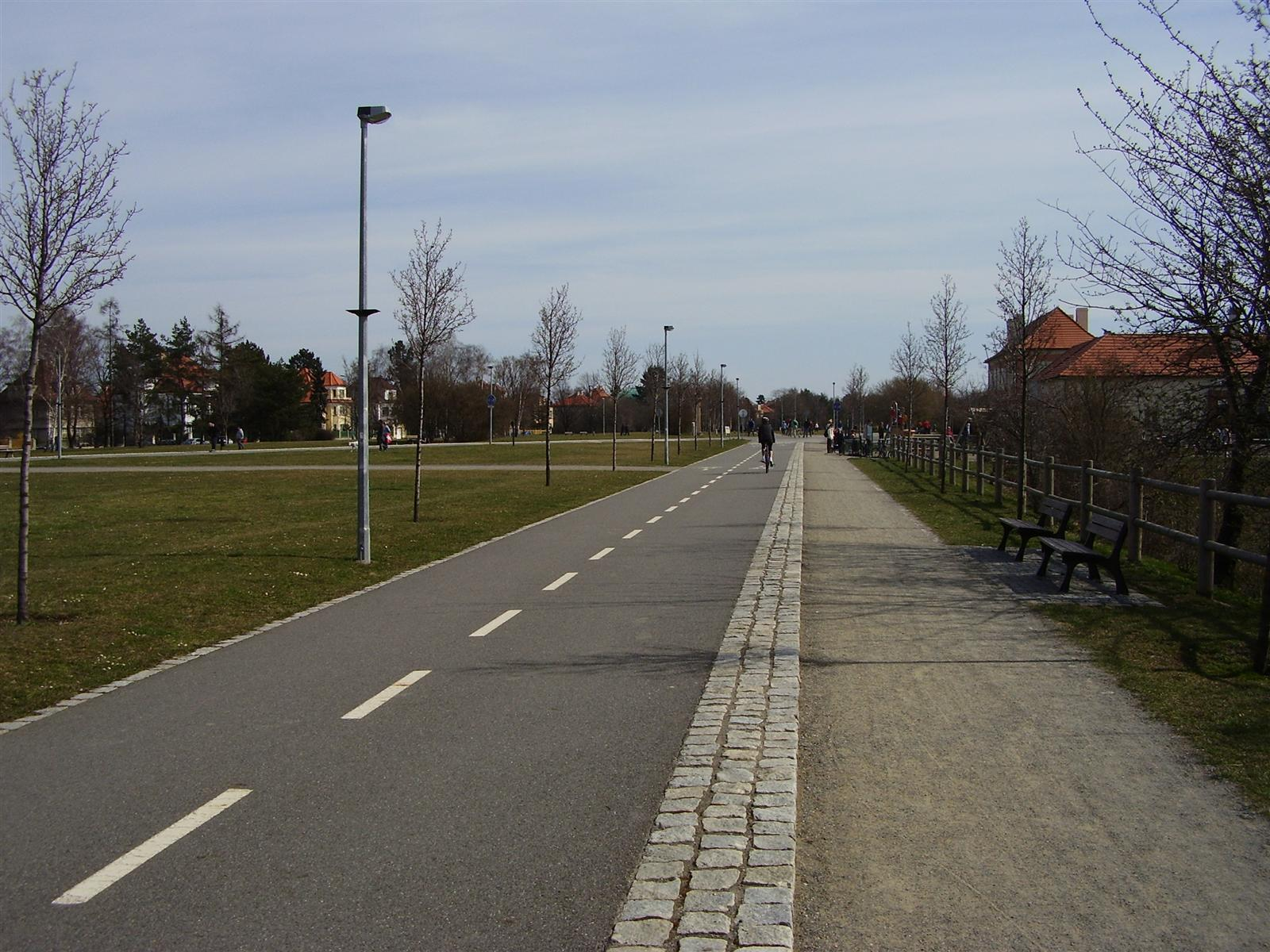 Park Ladronka in Prague with cycletrack